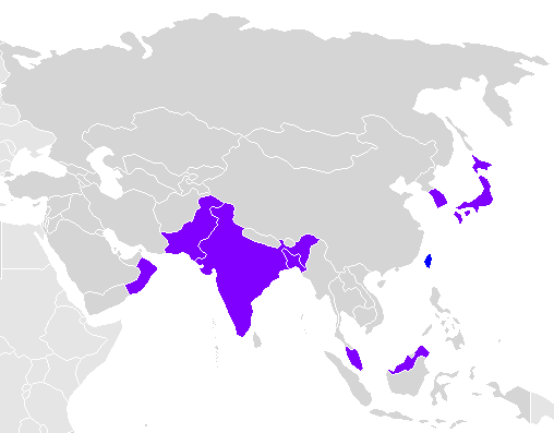 Participants of 2013 Asian men's hockey cup.